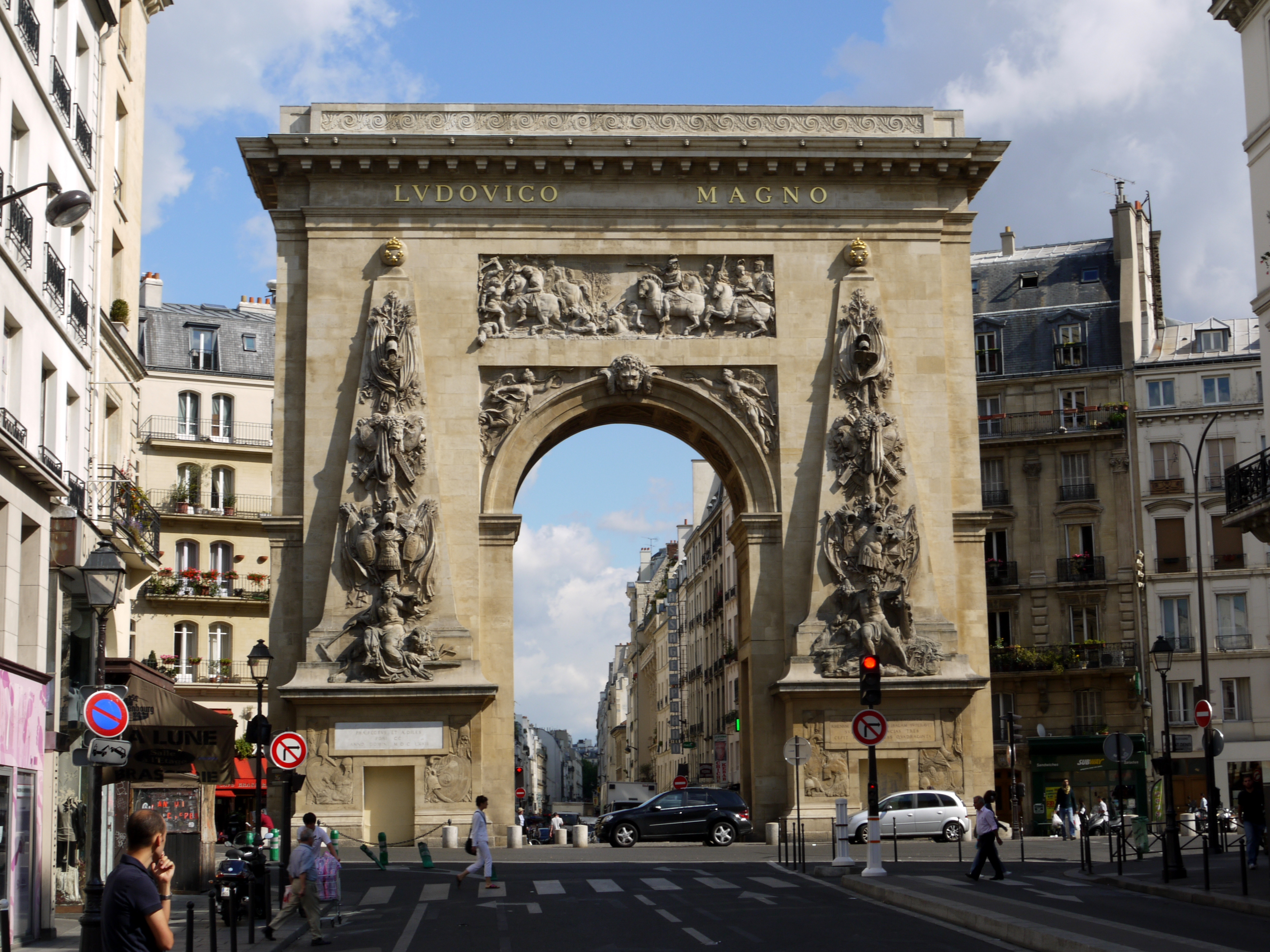 Porte Saint-Denis, Paris